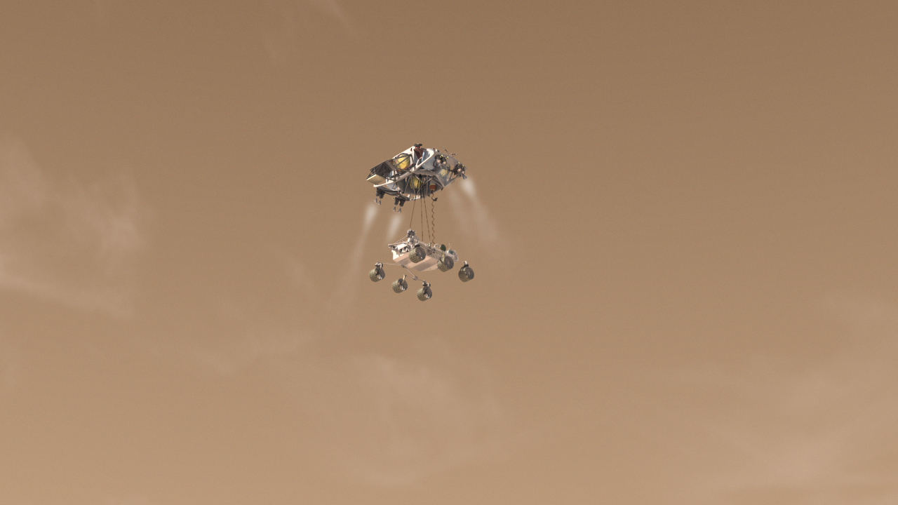 This artist's concept from an animation depicts Curiosity, the rover to be launched in 2011 by NASA's Mars Science Laboratory, as it is being lowered by the mission's rocket-powered descent stage during a critical moment of the "sky crane" landing in 2012.